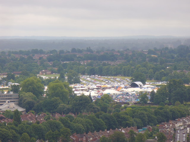 Guilfest 2009. Stoke Park is awash with cars, caravans, people and tents for the popular Guilfest music festival. Surrounding greenery masks many houses in eastern Guildford. Seen from Guildford Cathedral tower.